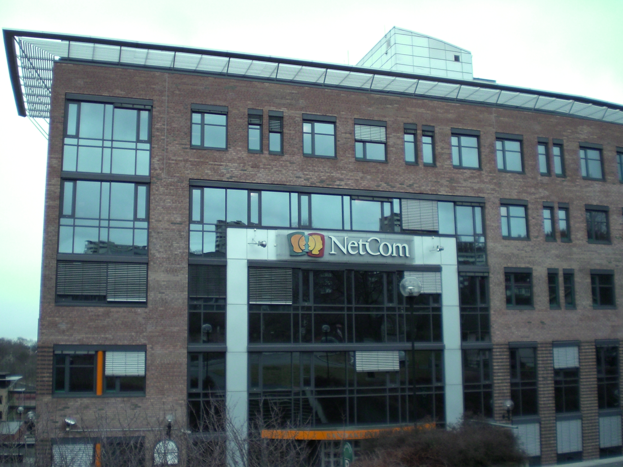 NetCom headquarter in Nydalen, Oslo, Norway